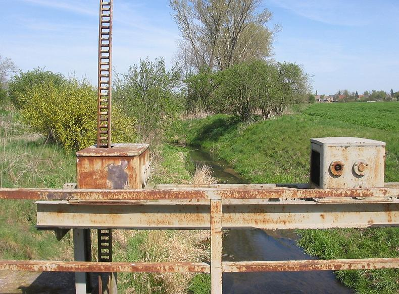 Stream Zahna (Elbe-tributary) in the eponymous town Zahna. The town Zahna, district Wittenberg, state Saxony-Anhalt, Germany, is situated in the Nature park Fläming.